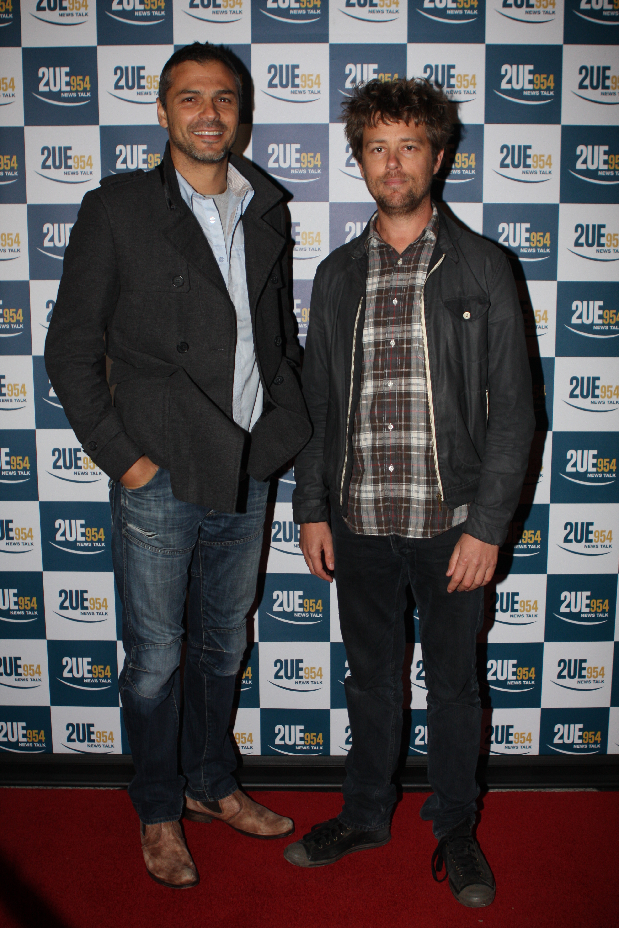 Jonny Pasvolsky and ?? at Oranges and Sunshine film premiere in Sydney